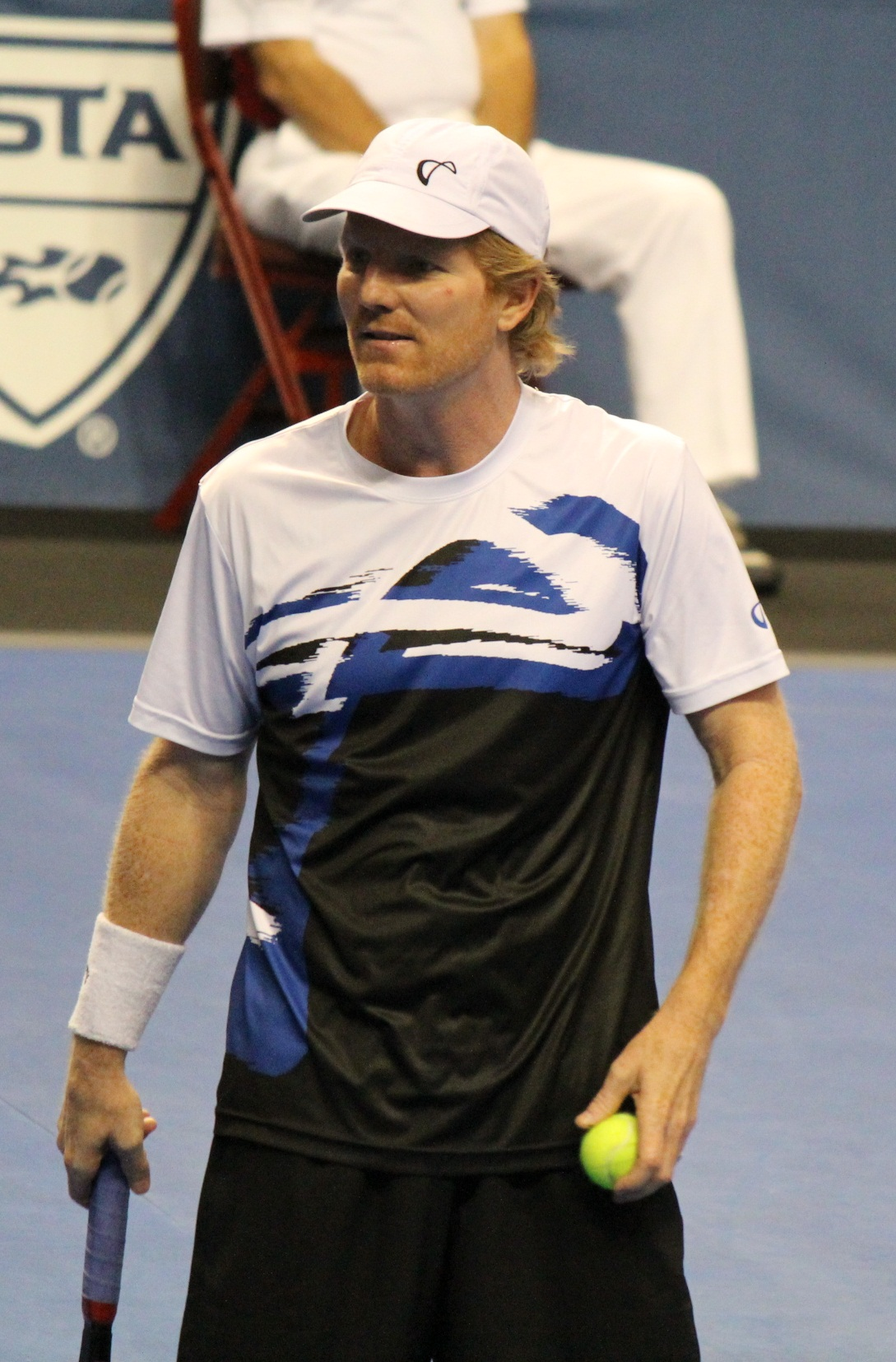 Jim Courier, playing in Champions Shootout, Philadelphia